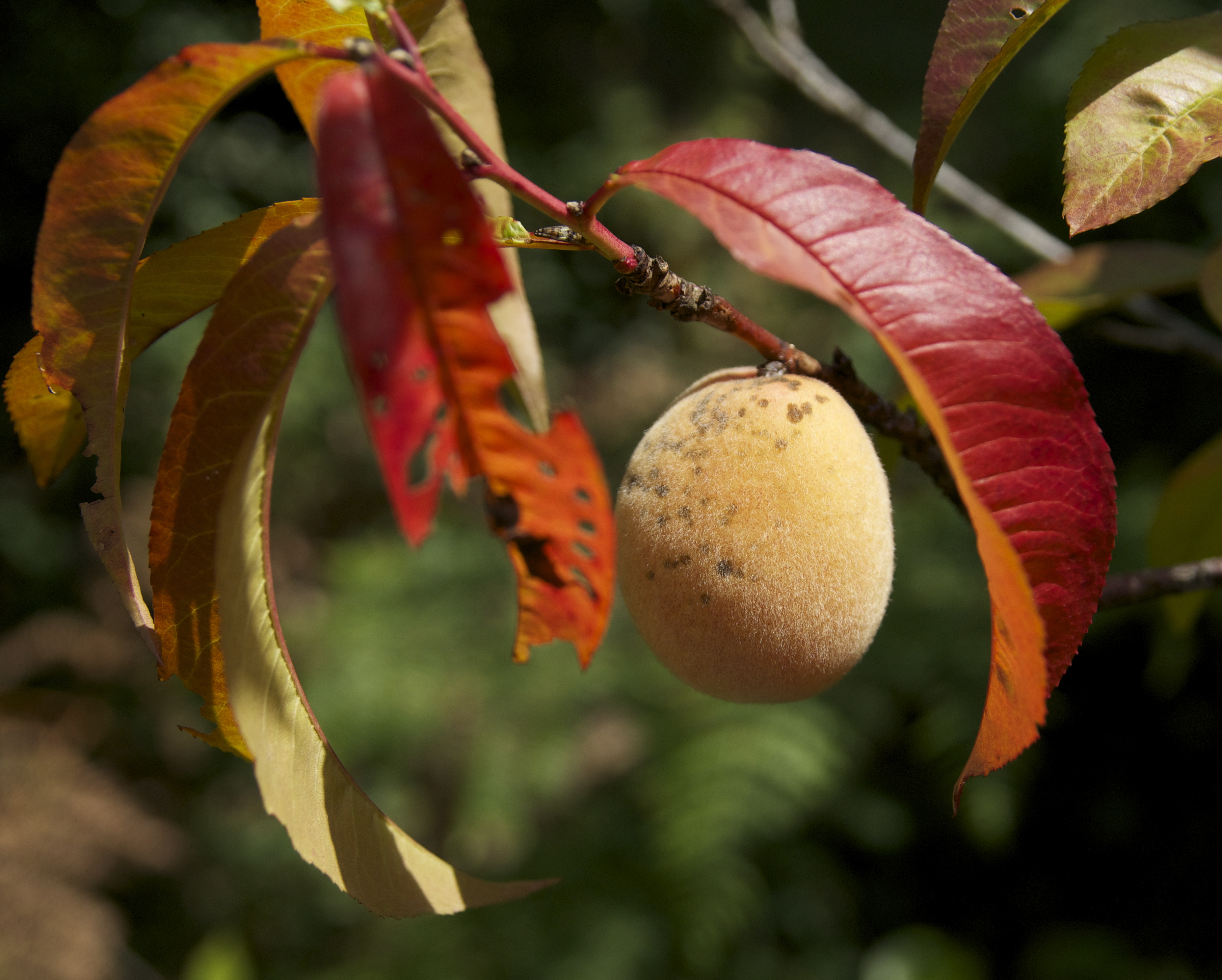 An abricot (Prunus armeniaca), Dordogne, France.